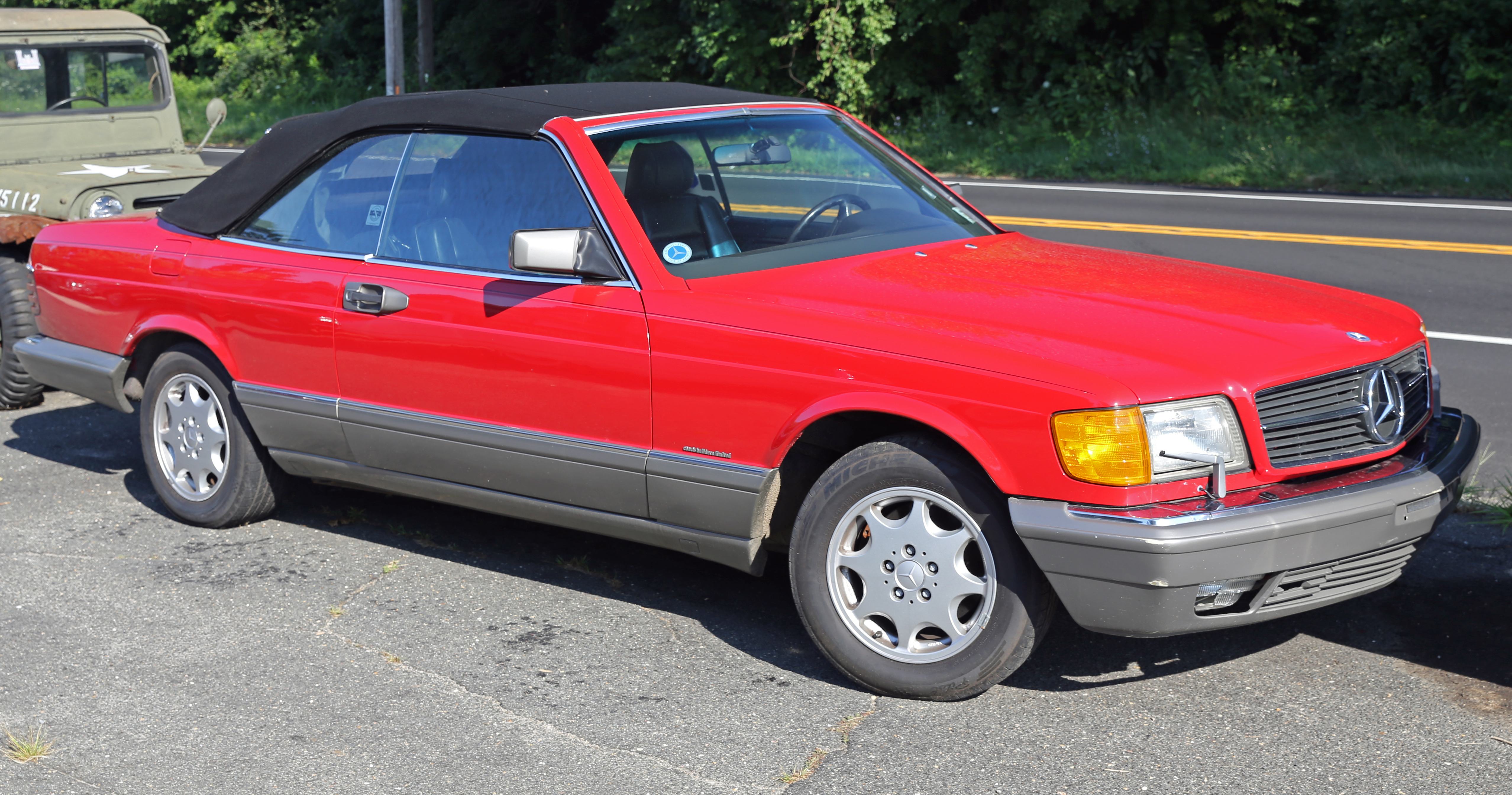 A 1986 Mercedes-Benz 560 SEC convertible conversion by Coach Builders Limited of Florida.